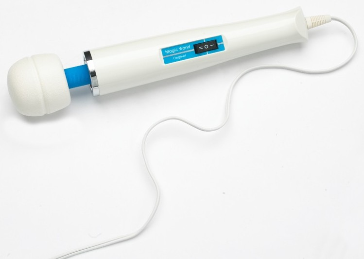 Magic Wand Original, massager, manufactured by Hitachi and sold by Vibratex in the United States.